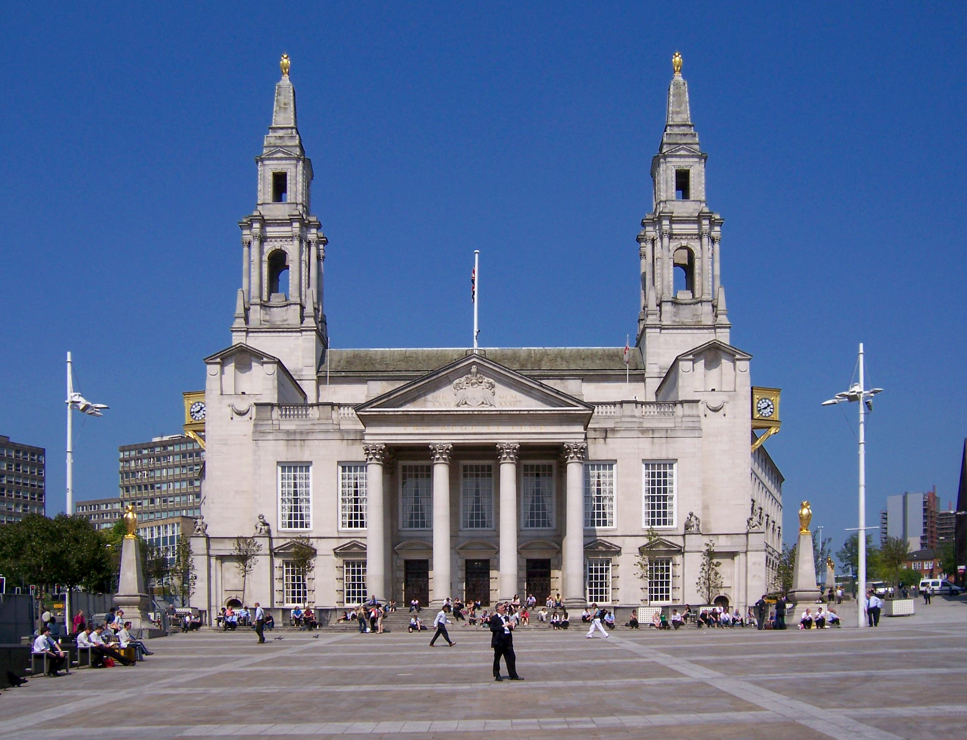 Civic Hall in Leeds, West Yorkshire (England) own work; photo taken on 10 May 2006